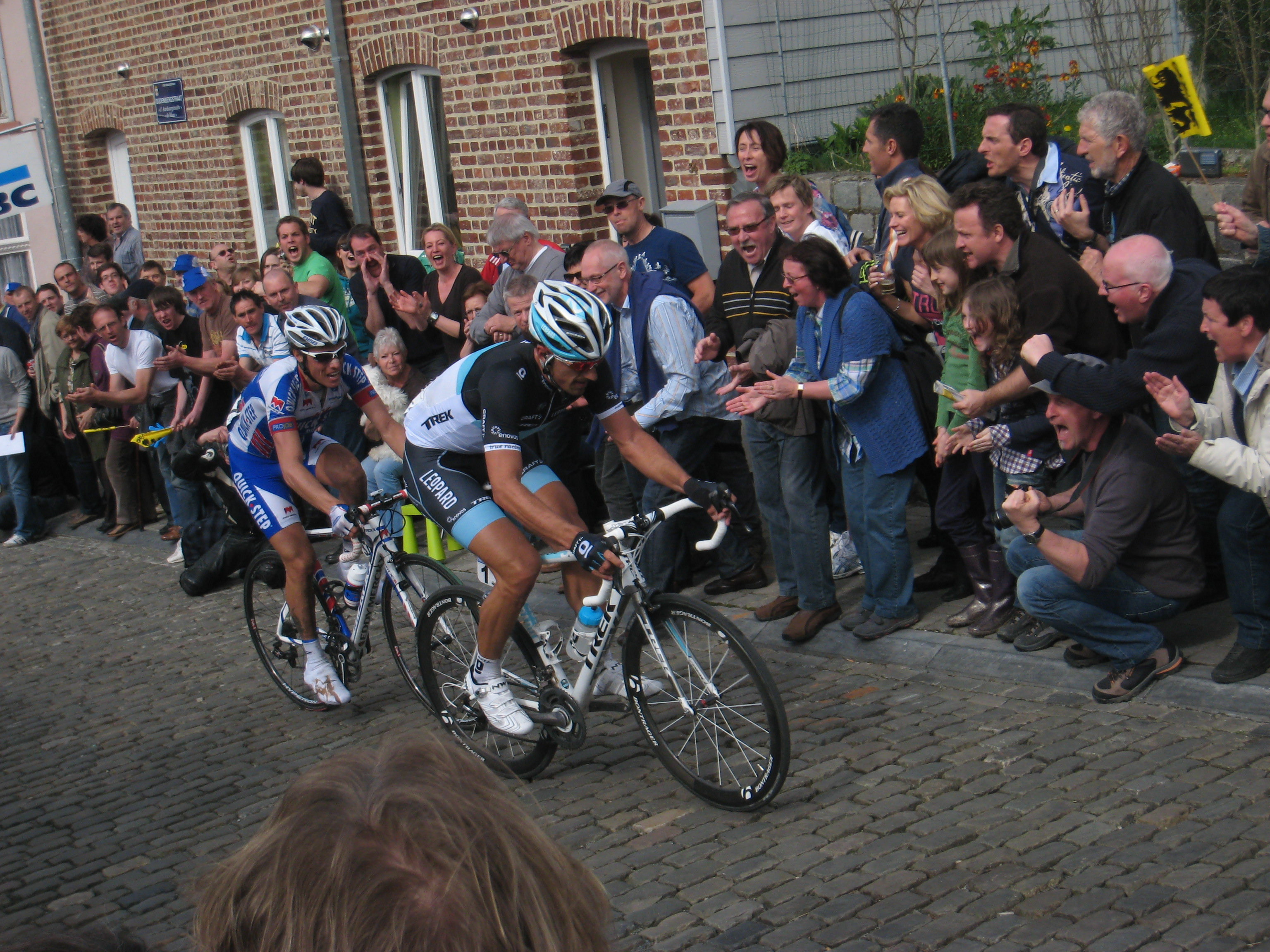 Fabian Cancellara and Sylvain Chavanel lead the race up the lower part of the Muur van Geraardsbergen in the Ronde van Vlaanderen 2011